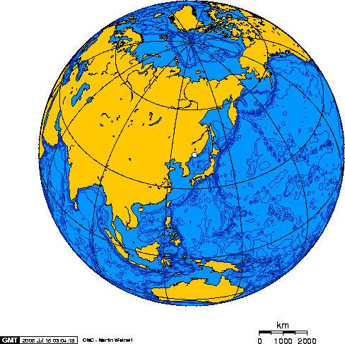 Orthographic projection centred over Vladivostok